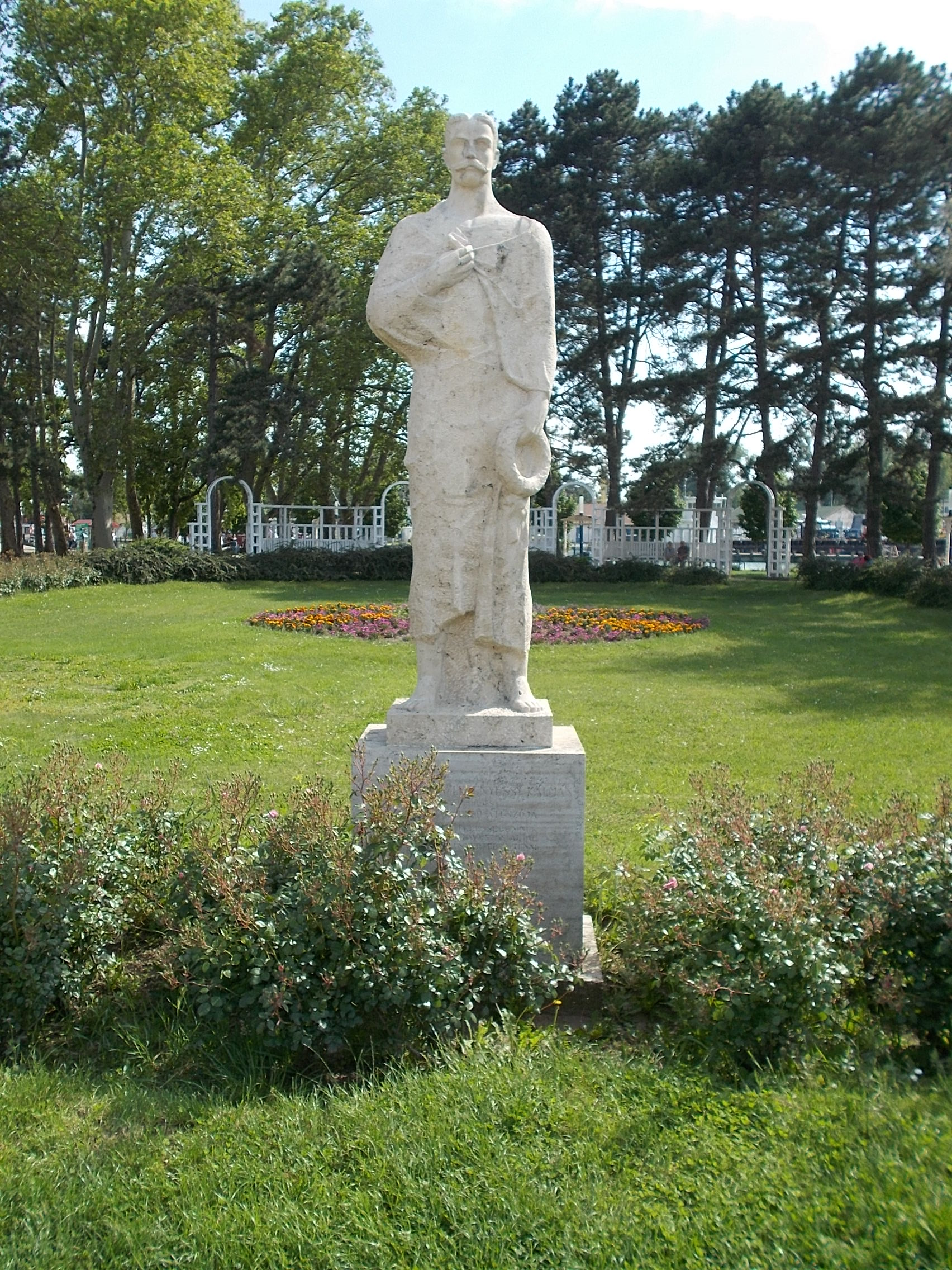 Kálmán Szekrényessy Székelyhidi by Béla Bajnok (1997 limestone statue) - Isztria Promenade Park, Üdülőterület neighborhood, Siófok, Somogy County, Hungary.